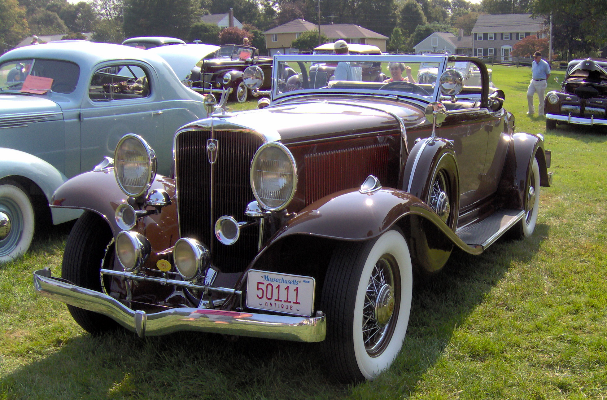 1931 Studebaker President four seasons roadster